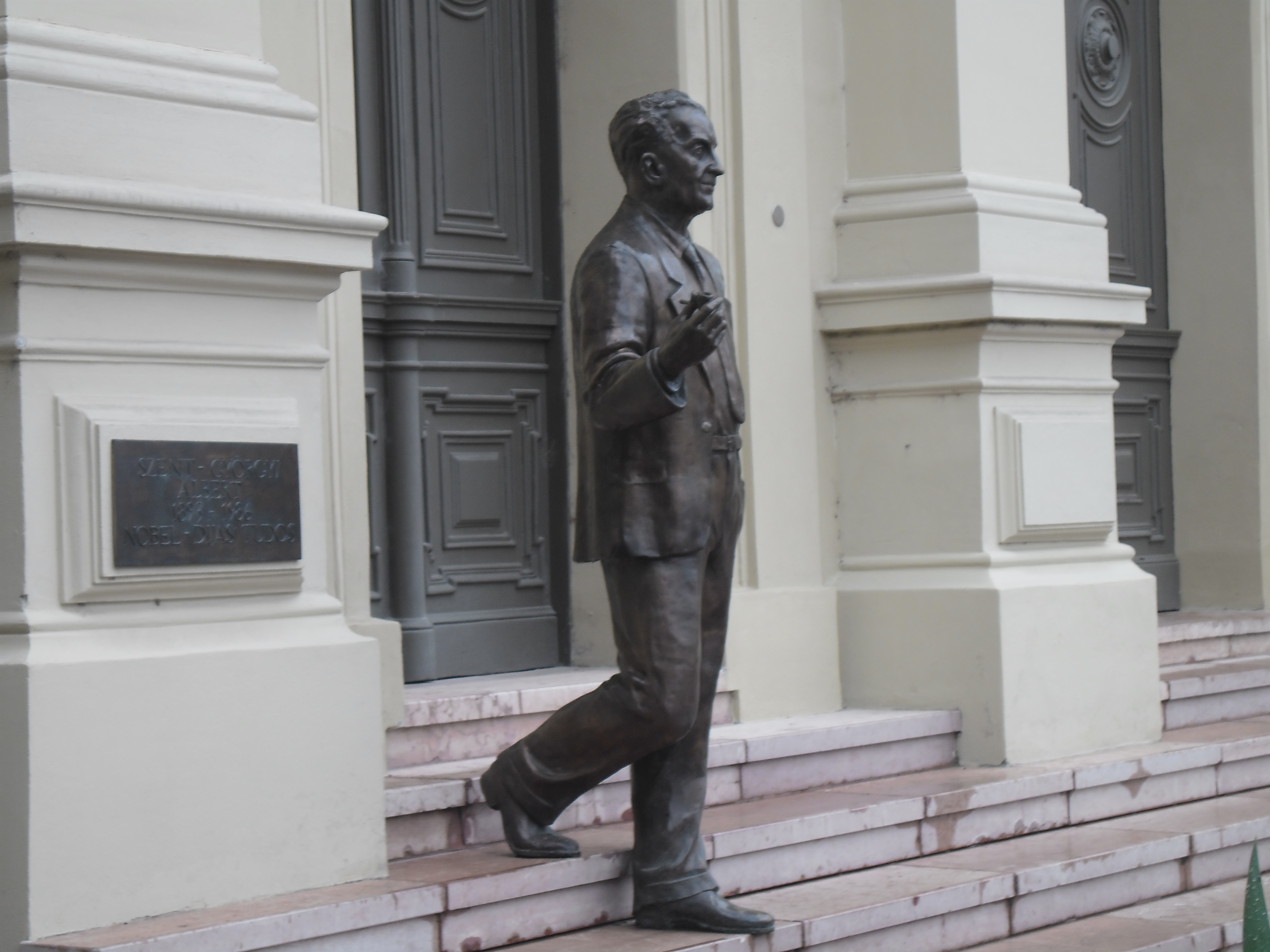 Statue of Albert Szent-Györgyi